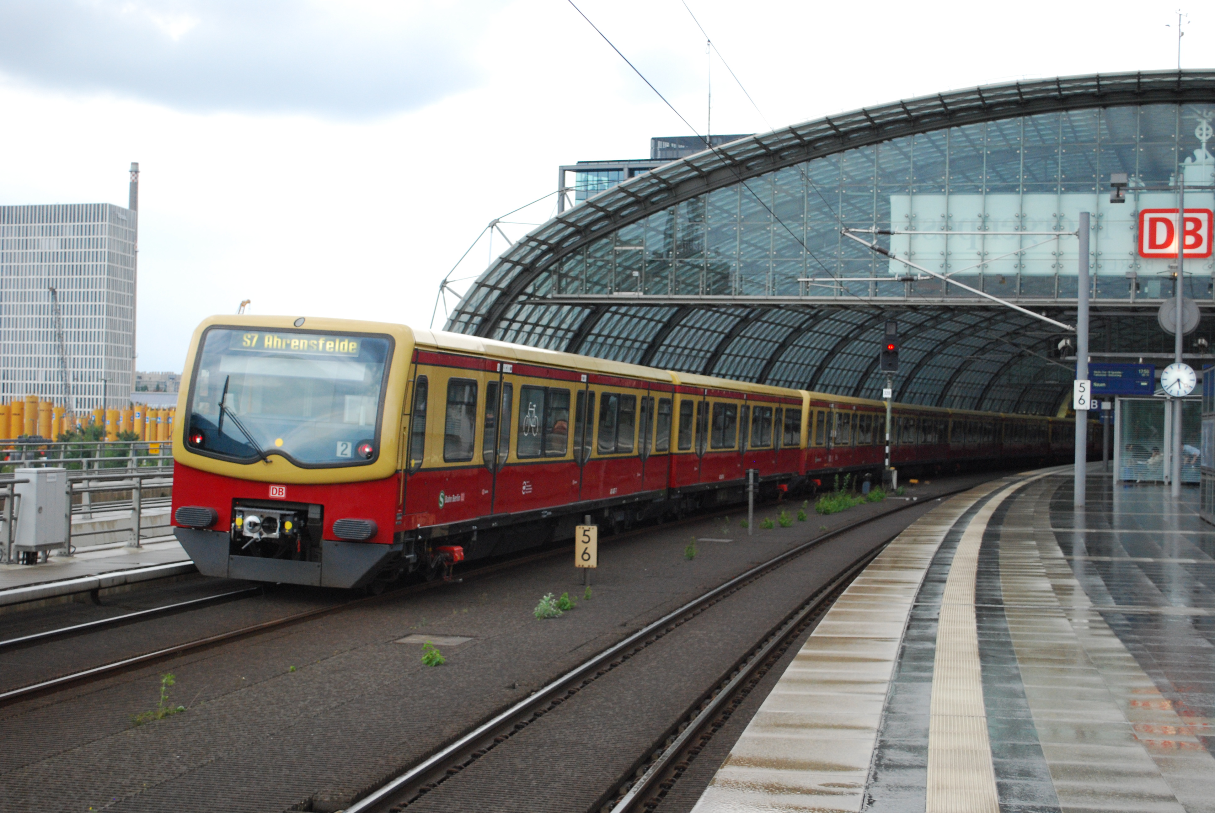 Berlin S-Bahn Class "481" 800v dc 3rd rail 2-car emu No.481/482 002 at Berlin Hbtf on a Line S7 Ahrensfelde service, 09/12. 500 sets were built 1995-2004 by Bombardier/DWA/Adtranz..